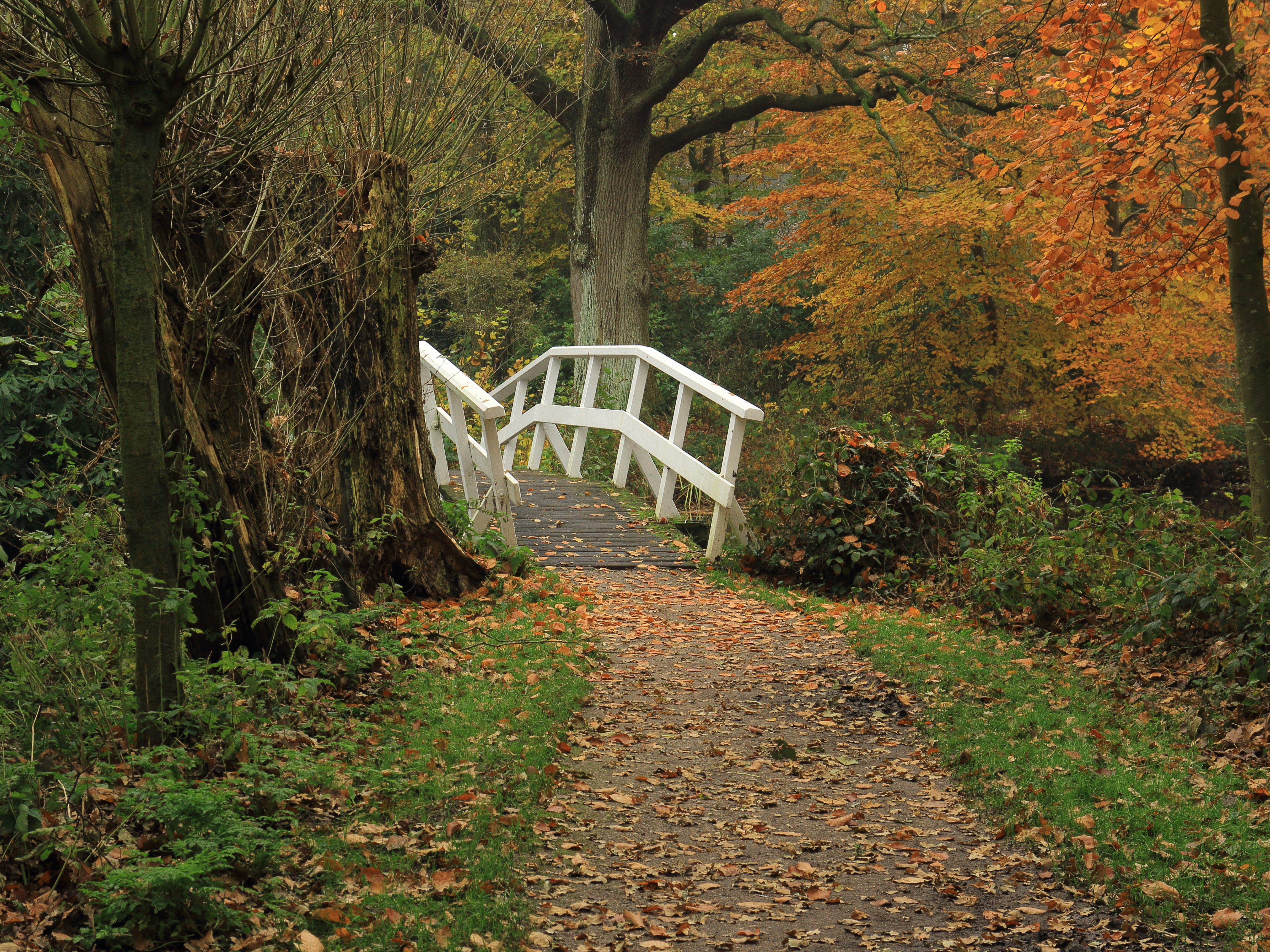 Historical park Heremastate. Bridge over pond.